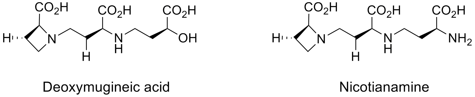 Replacement to terminal OH function by NH2 changes the selectivity for the different iron redox states. Deoxymugineic acid is selective for iron(III) and nicotianamine is selective for iron(II)